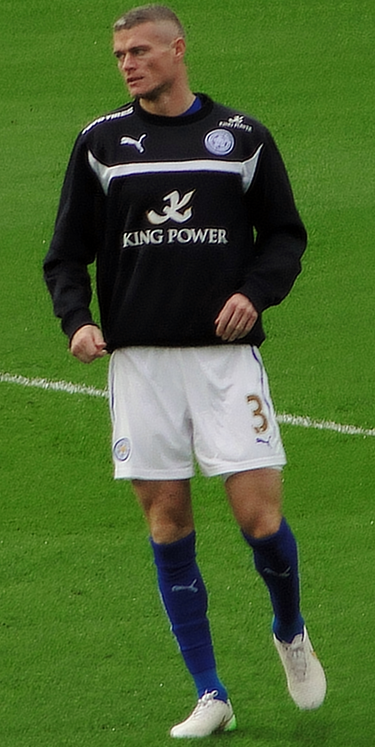 Leicester City play Paul Konchesky warming up before their Premier League defeat to West Ham United at the Boleyn Ground, December 2014